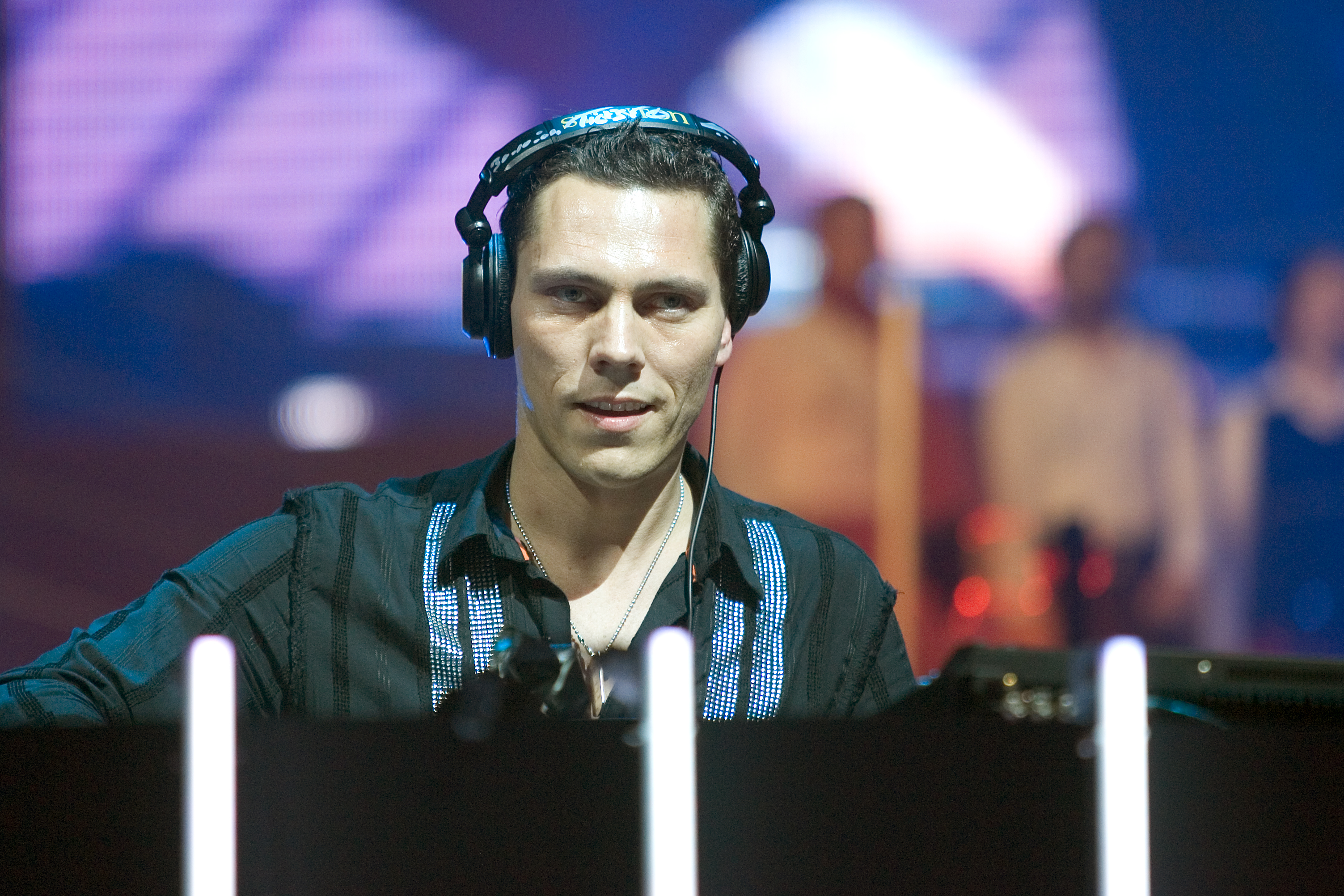 Tiesto performing in Arnhem's GelreDome.